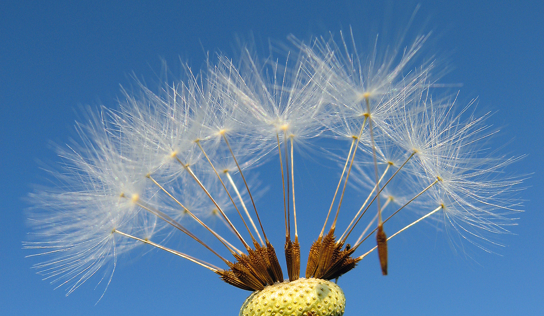 Dandelion